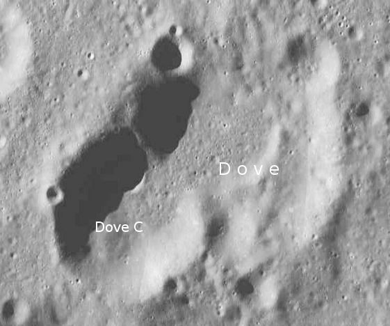 Crater Dove (detail of LRO - WAC global moon mosaic; Mercator projection)